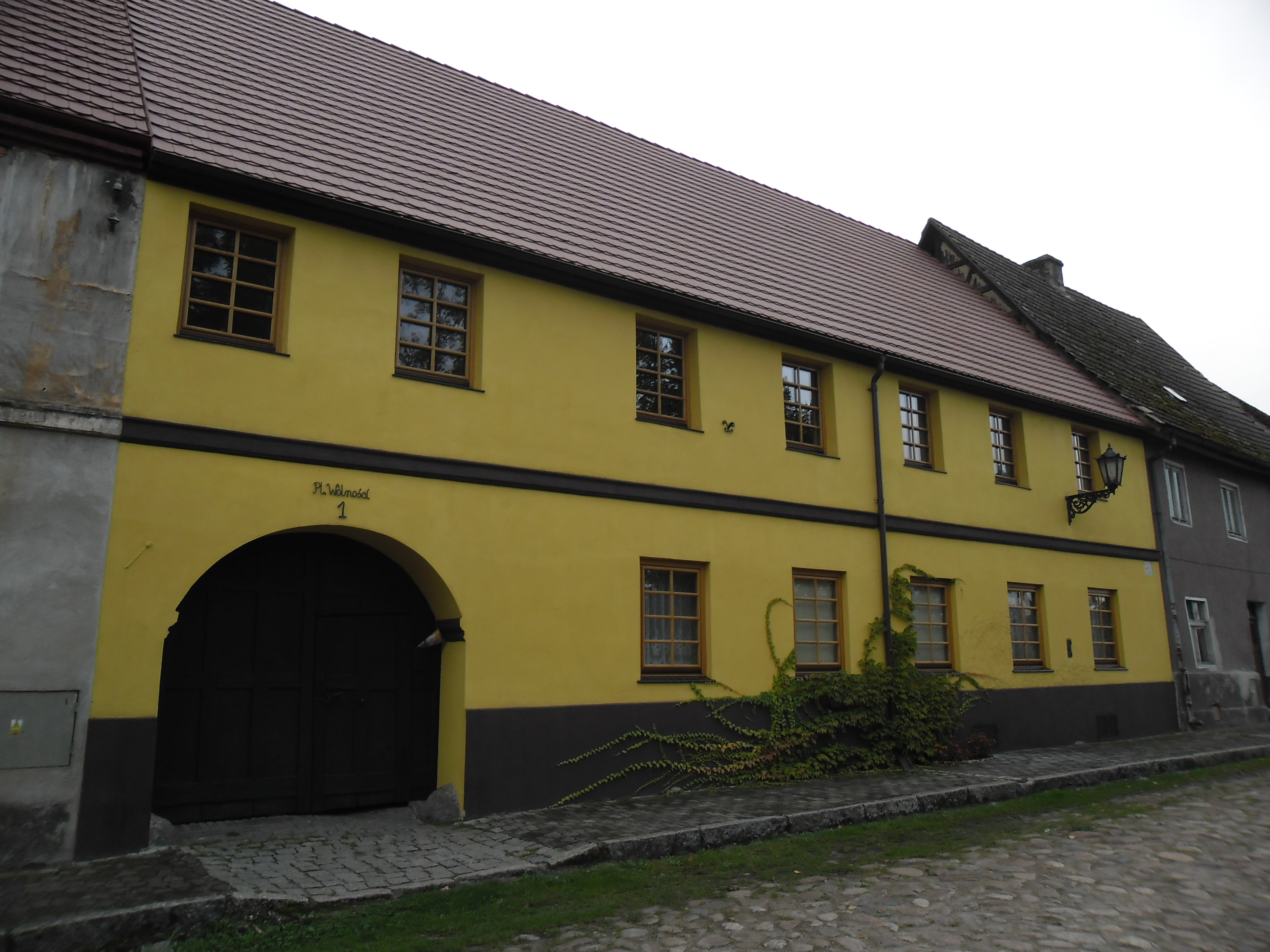 Polish monument no. 736/W z 05.01.1998: Living farmhouse - old leather factory in Uraz ul. Wolności 1 (sight from ul. Wolności)